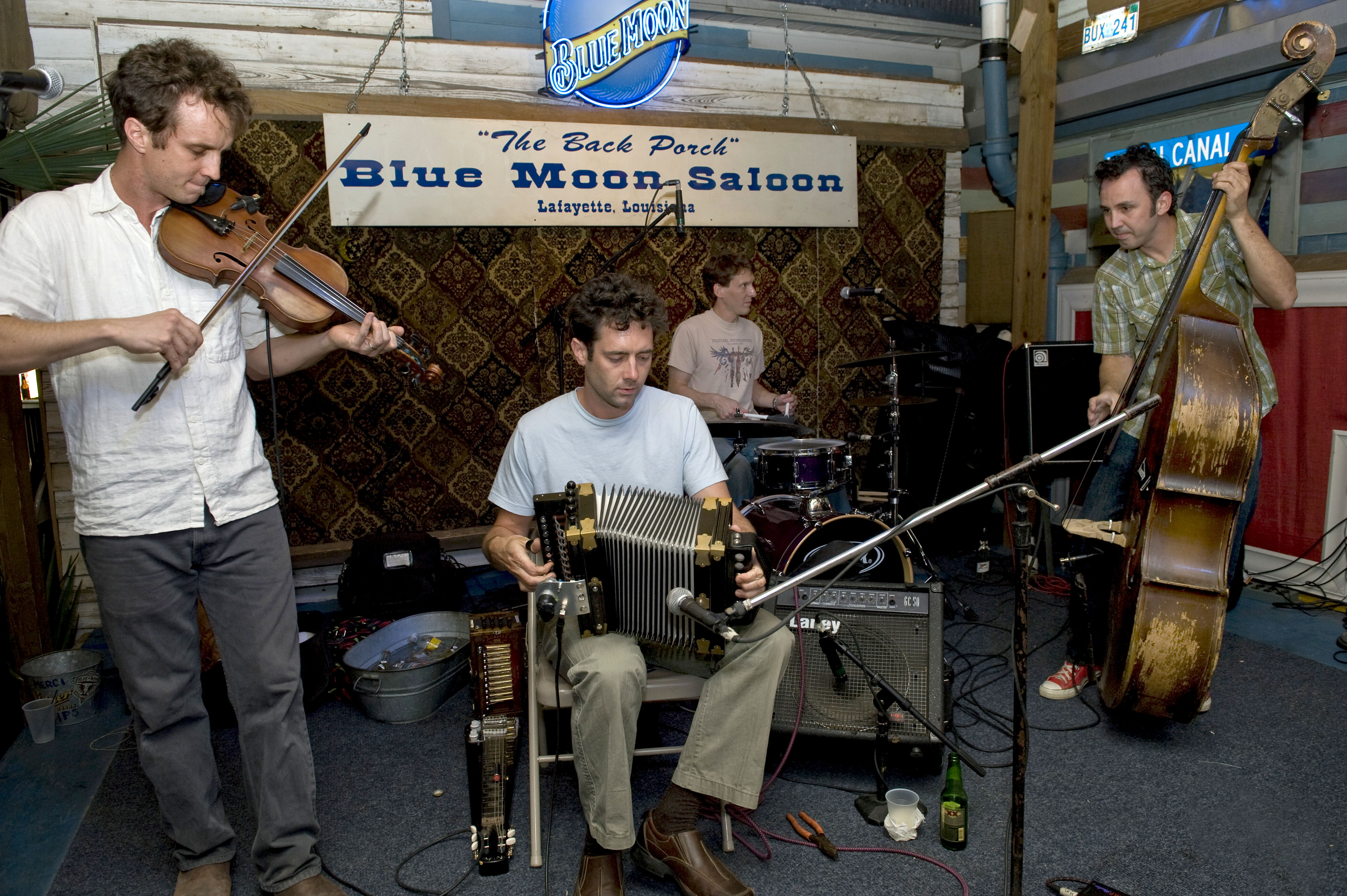 Lost Bayou Ramblers playing at the Blue Moon Saloon in Lafayette, Louisiana. From left to right are Louis Michot (fiddle and vocals), Andre Michot (Cajun accordion), Chris Courville (drums) and Alan LaFleur (upright bass).